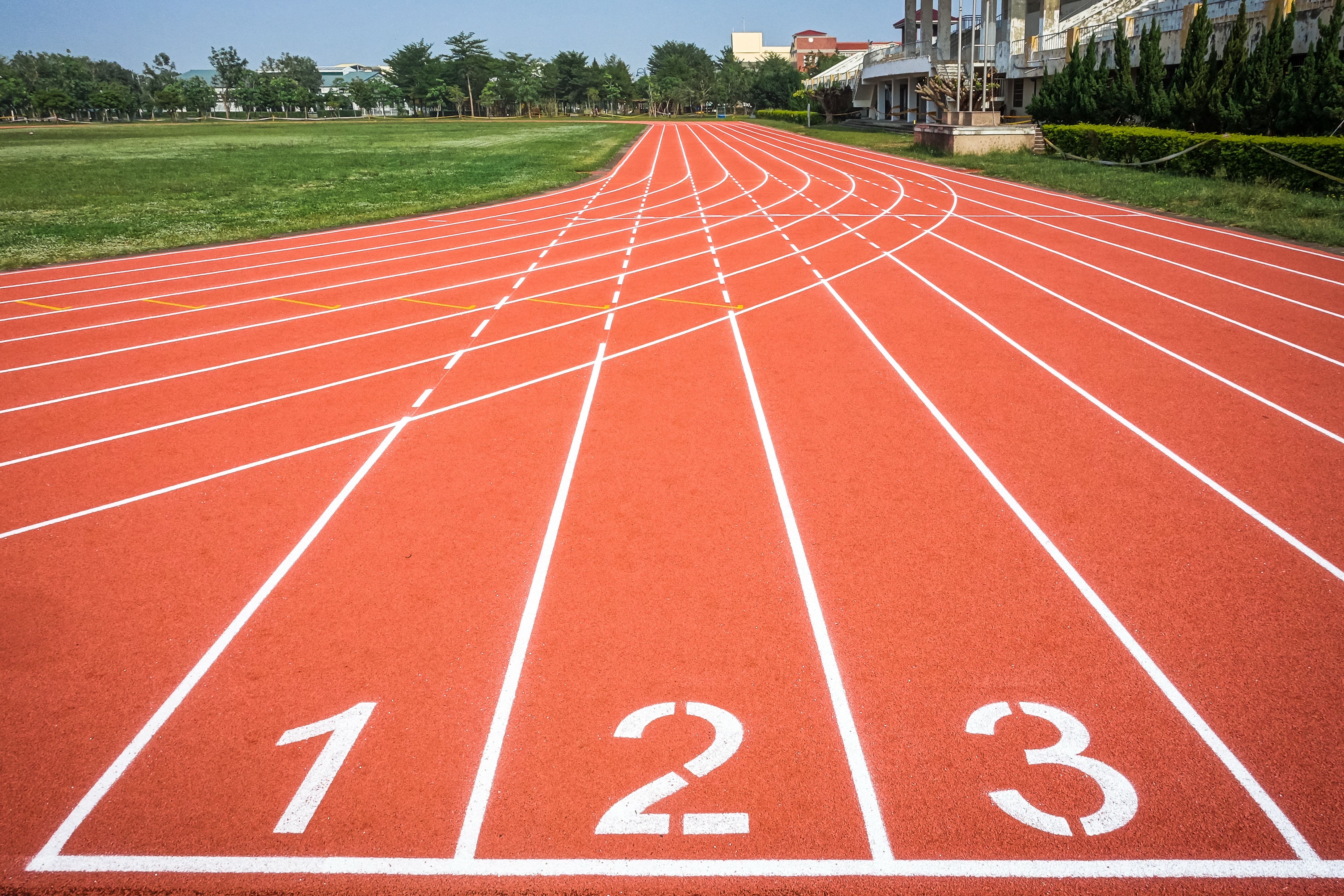 An all-weather running track (photo taken at the Dalin Sports Park, Chiayi, Taiwan)